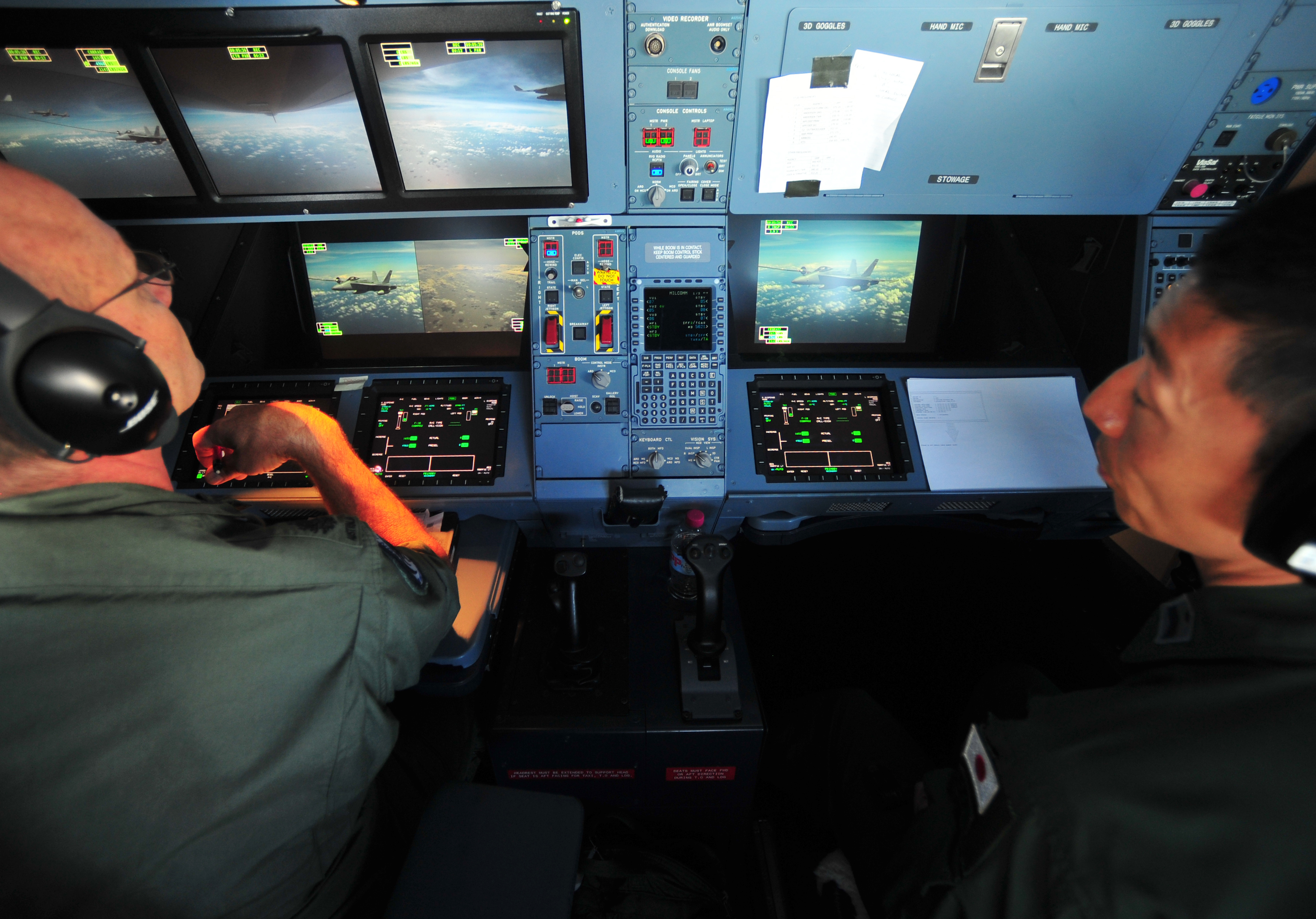 A member of the Royal Australian Air Force refuels a RAAF F/A-18 from a KC-30A Multi Role Tanker Transport while being observed by a Japan Air Self Defense Force tanker pilot during a flight in support of Cope North 13 near Anderson Air Force Base, Guam, Feb. 13, 2013. In the RAAF's new KC-30A, the refuel systems are controlled by an Air Refuelling Operator in the cockpit, who can view refuelling on 2D and 3D screens. Cope North is an annual air combat tactics, humanitarian assistance and disaster relief exercise designed to increase the readiness and interoperability of the U.S. Air Force, Japan Air Self-Defense Force and Royal Australian Air Force.